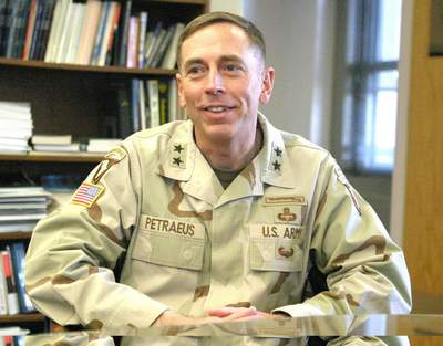 Major General David H. Petraeus, US Army.